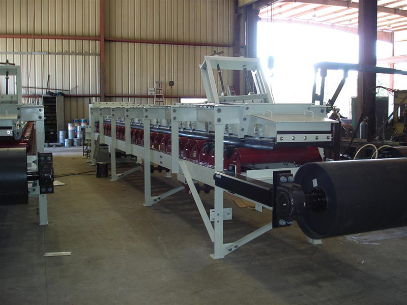 A custom made belt feeder from conveyor manufacturer Montague Legacy Group.